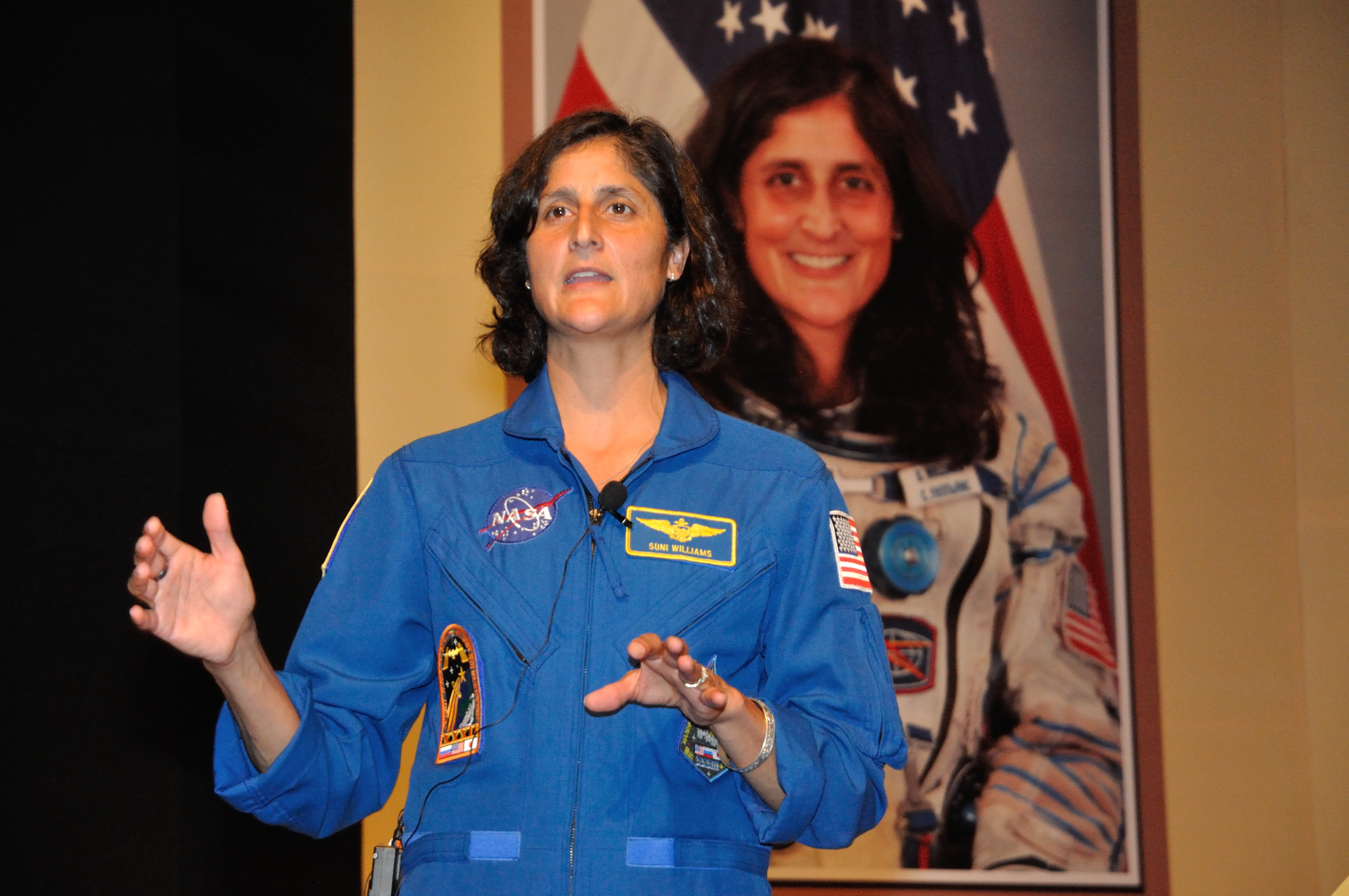 A lecture was given to the two thousand school students and interacted with them by Sunita Lyn Williams, the NASA astronaut on 'Expedition - 33 International Space Station Mission: Challenges and Success' on 2 April, 2013 at The Science City, Kolkata during her India tour.